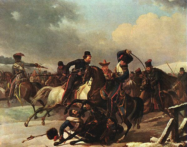 The author depicts his own capture during the French campaign in Russia. He can be seen laying in the foreground.